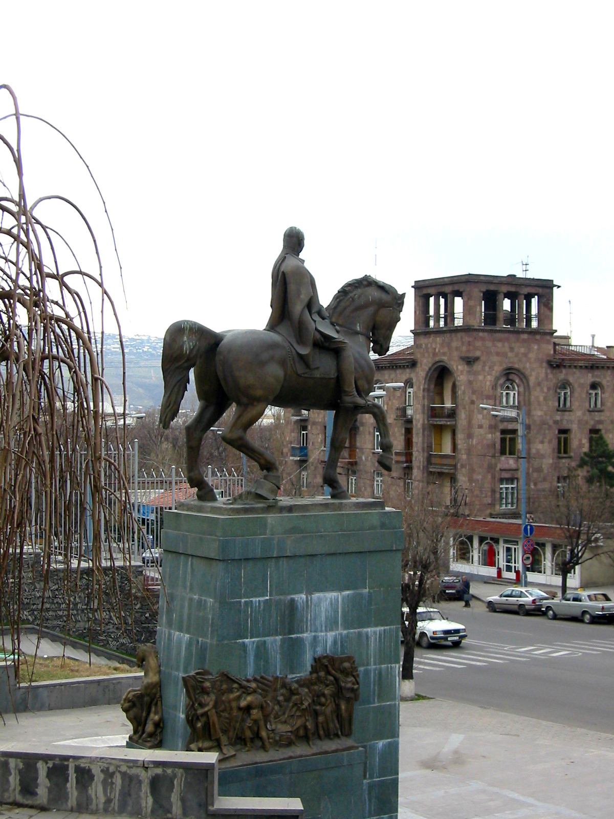 Equestrian statue of Marshal Baghramyan on Marshal Baghramyan Avenue in Yerevan, Armenia, photo taken by Eupator.